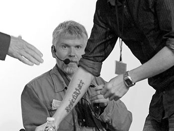 Gyrdir Eliasson Icelandic writer 2011